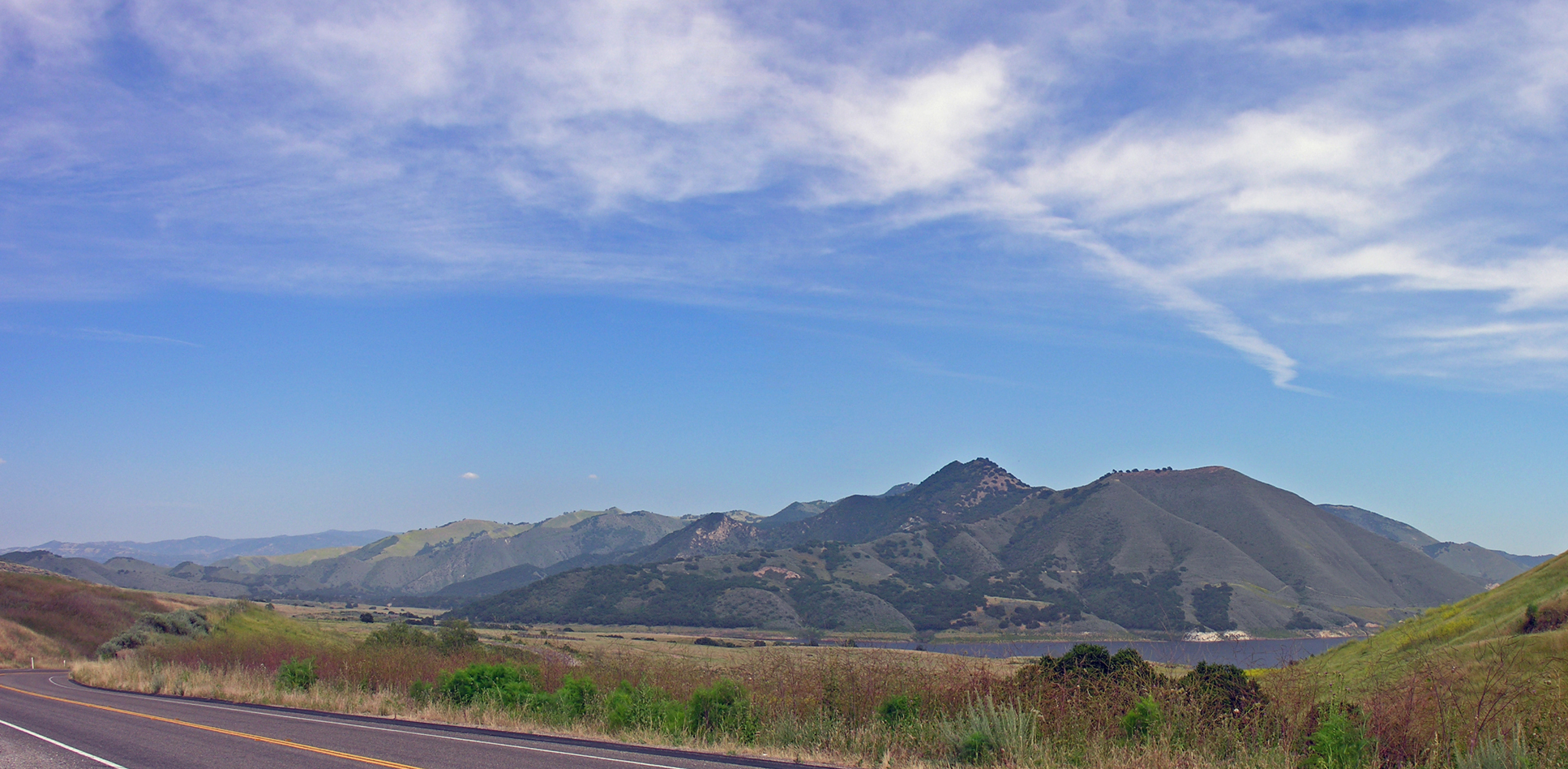 This is a picture of the San Rafael Mountains in Santa Barbara County, California. The picture was taken from California Highway 166. Twitchell Lake can be seen at the base of the mountains. The picture was taken by me on June 1, 2006. I give permission for the picture to be used with attribution under the GFDL and Creative Commons.